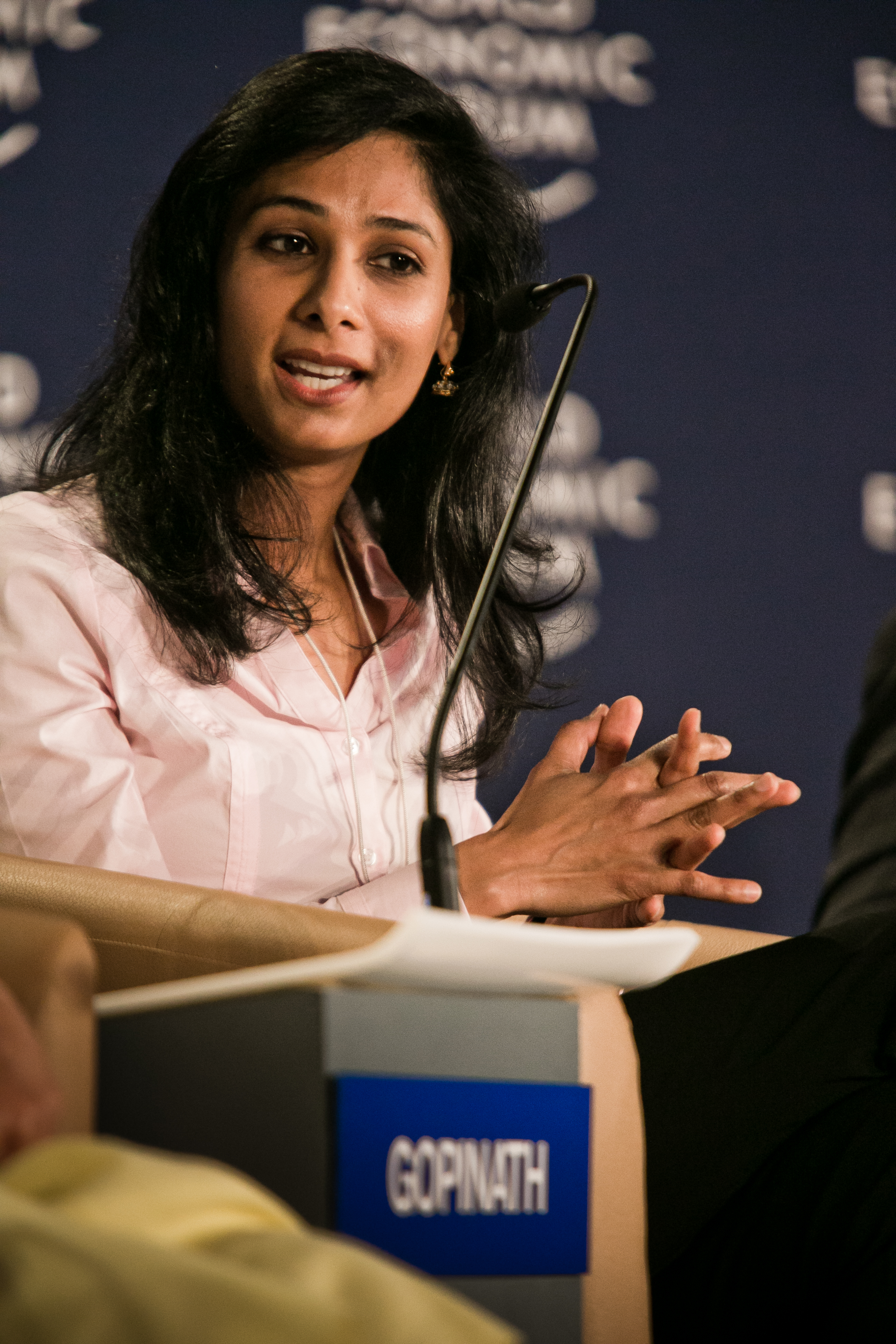 Gita Gopinath, professor of economics, Harvard University; Young Global Leader; Global Agenda Council on the International Monetary System at the World Economic Forum on India 2012.